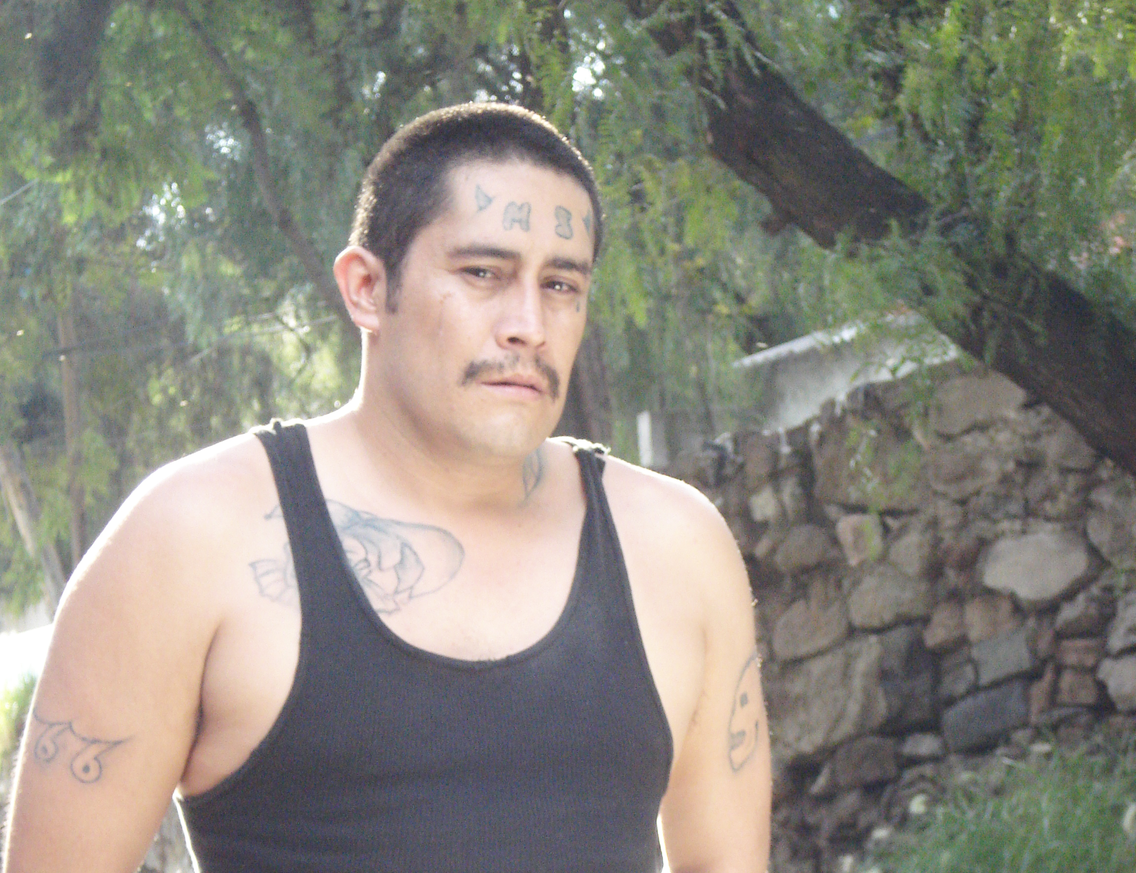 Carlos Barragán en 4 Maras